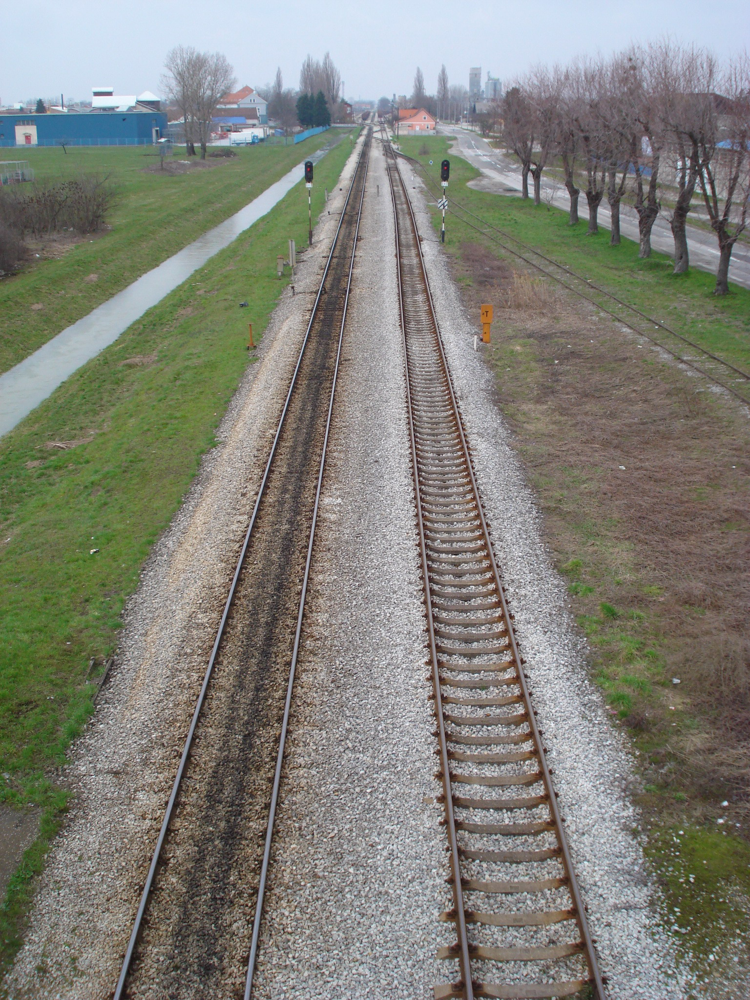 Between Čakovec and Čakovec-Buzovec Čakovec–Kotoriba railway (left) and Čakovec-Lendava railway (right) run parallel to each other, both lines are single tracked. View from road bridge across the railway lines (along Kalnička street) westward towards the Čakovec railway station. At the very right the siding to Čakovec Mills can bee seen.